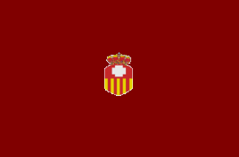 Bandera de Puebla de Soto